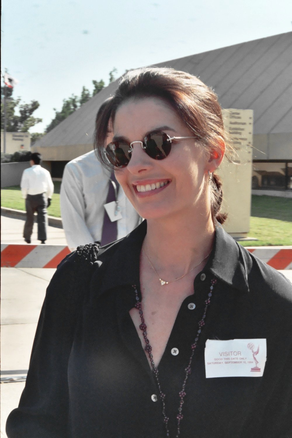 1994 Emmy Awards NOTE: Permission granted to copy, publish, broadcast or post any of my photos, but please credit "photo by Alan Light" if you can. Thanks. Scanned from the original 35MM film negative.